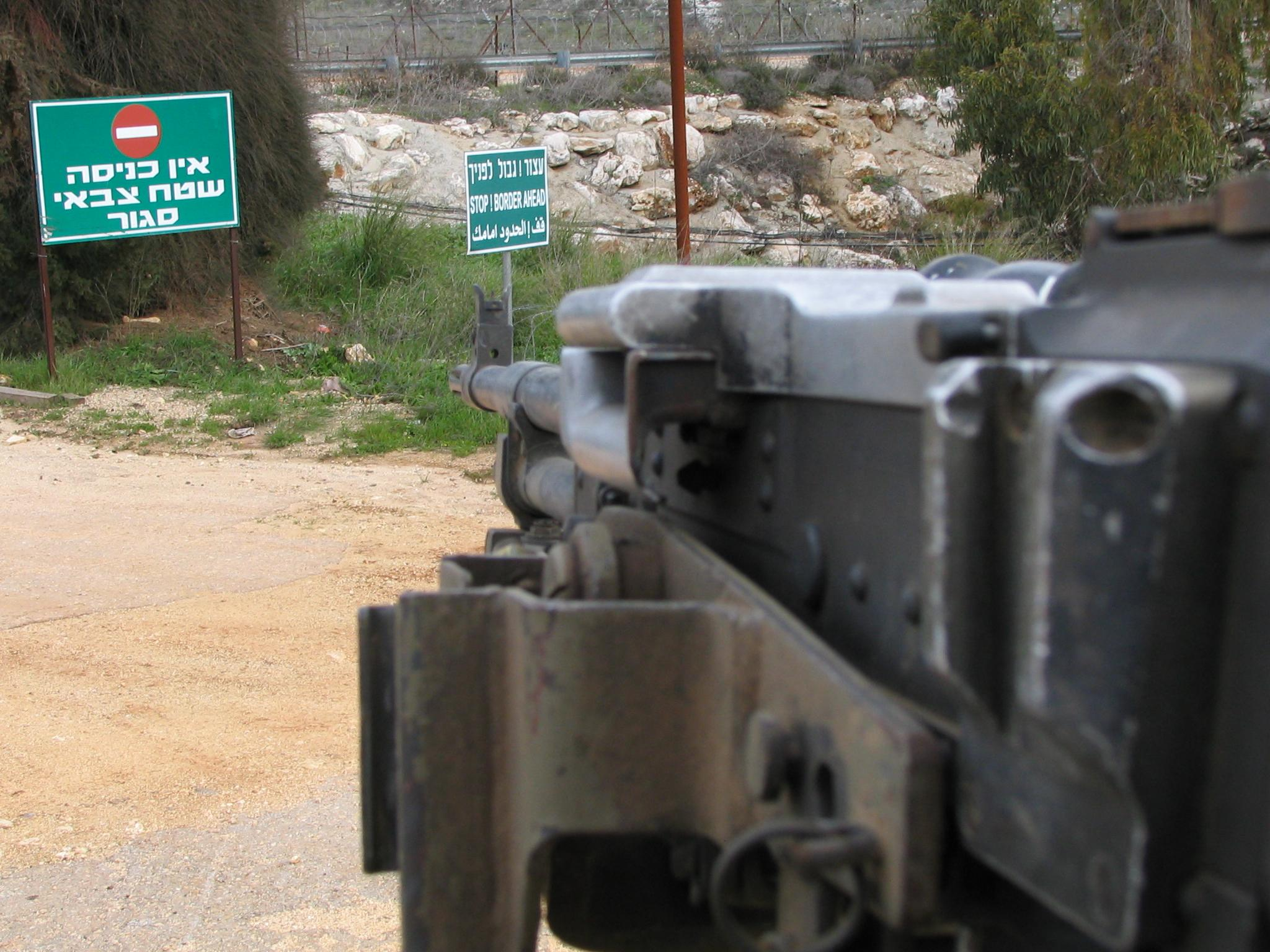 Border of Israel and Lebanon. Hebrew signs say "No entrance, closed military area", and "Stop, border ahead".